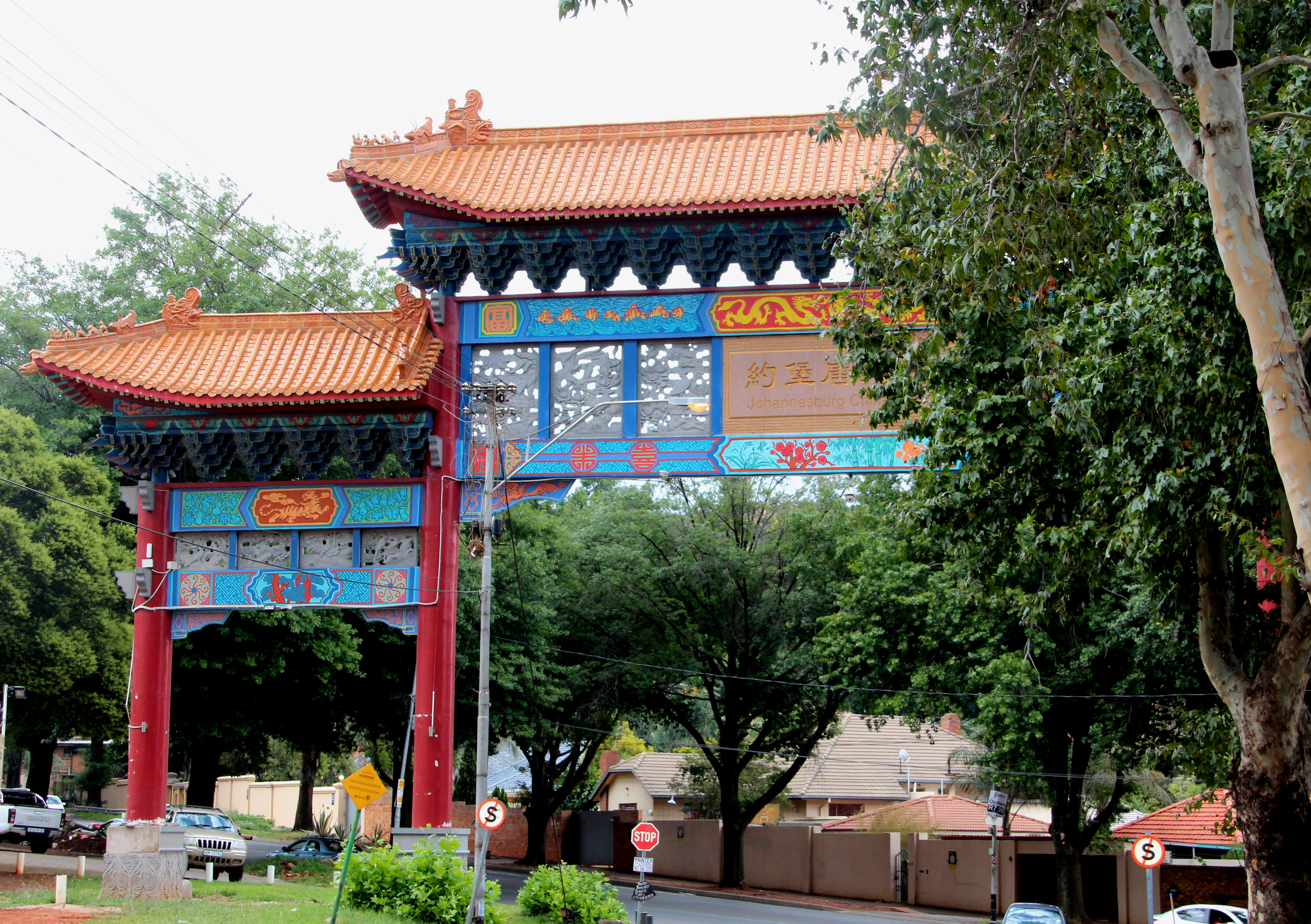 Paifang (Chinese Gate) in Derrick Avenue in Cyrildene, Johannesburg.